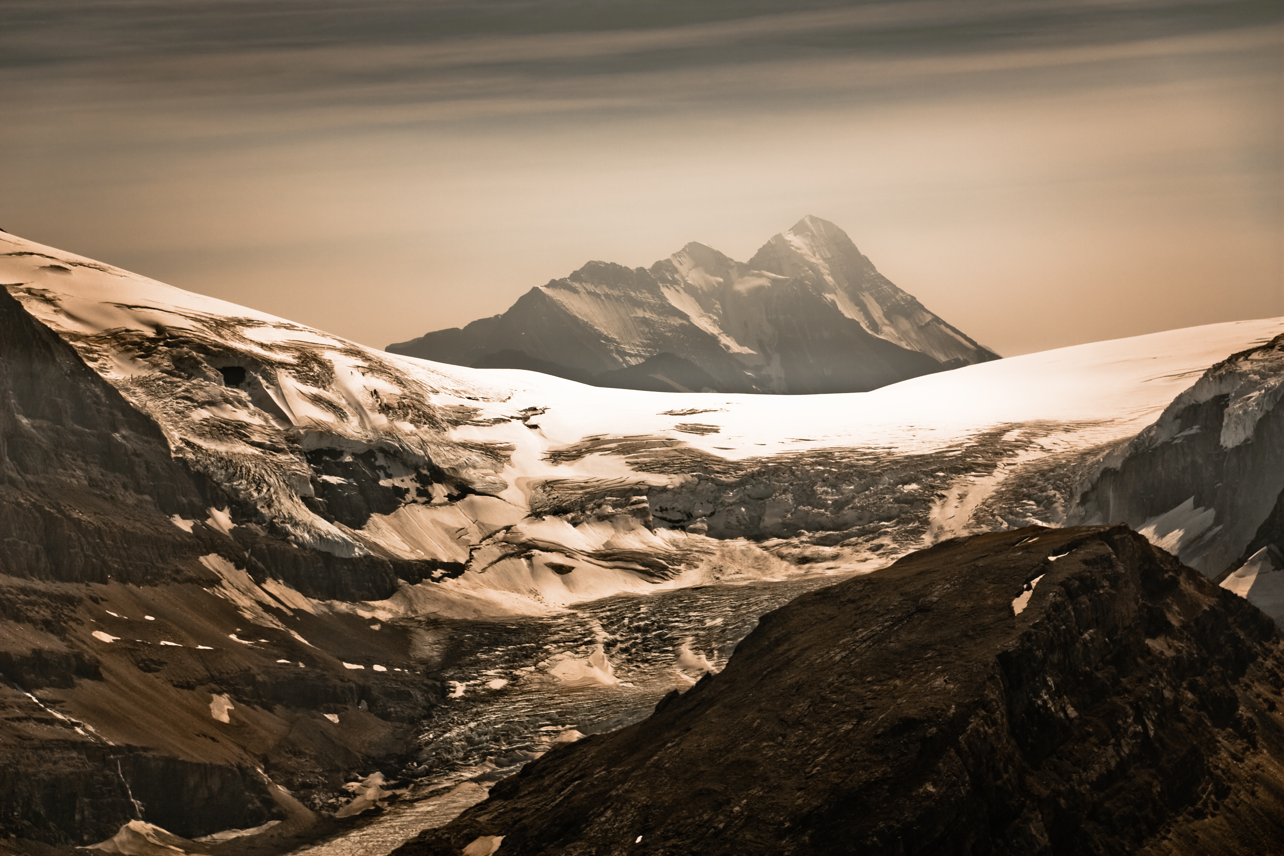 from Mount Wilcox. Most of the effects here were used just to cut through the haze, but it turned out unexpectedly different.